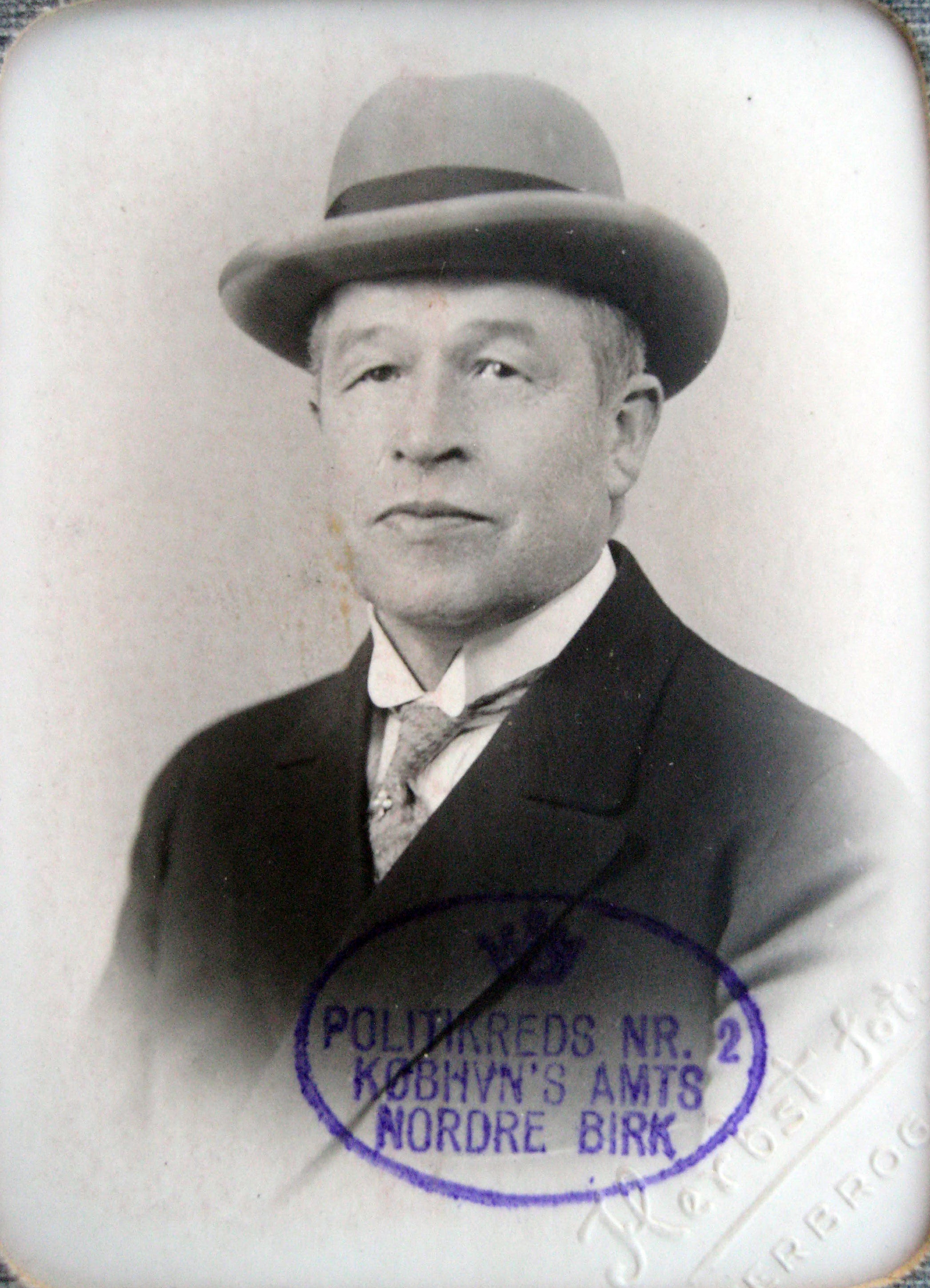 Portrait of the architect Valdemar Birkmand